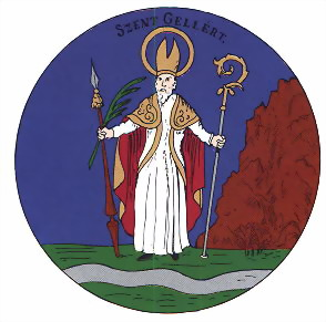 Coat of arms of county of Kingdom of Hungary